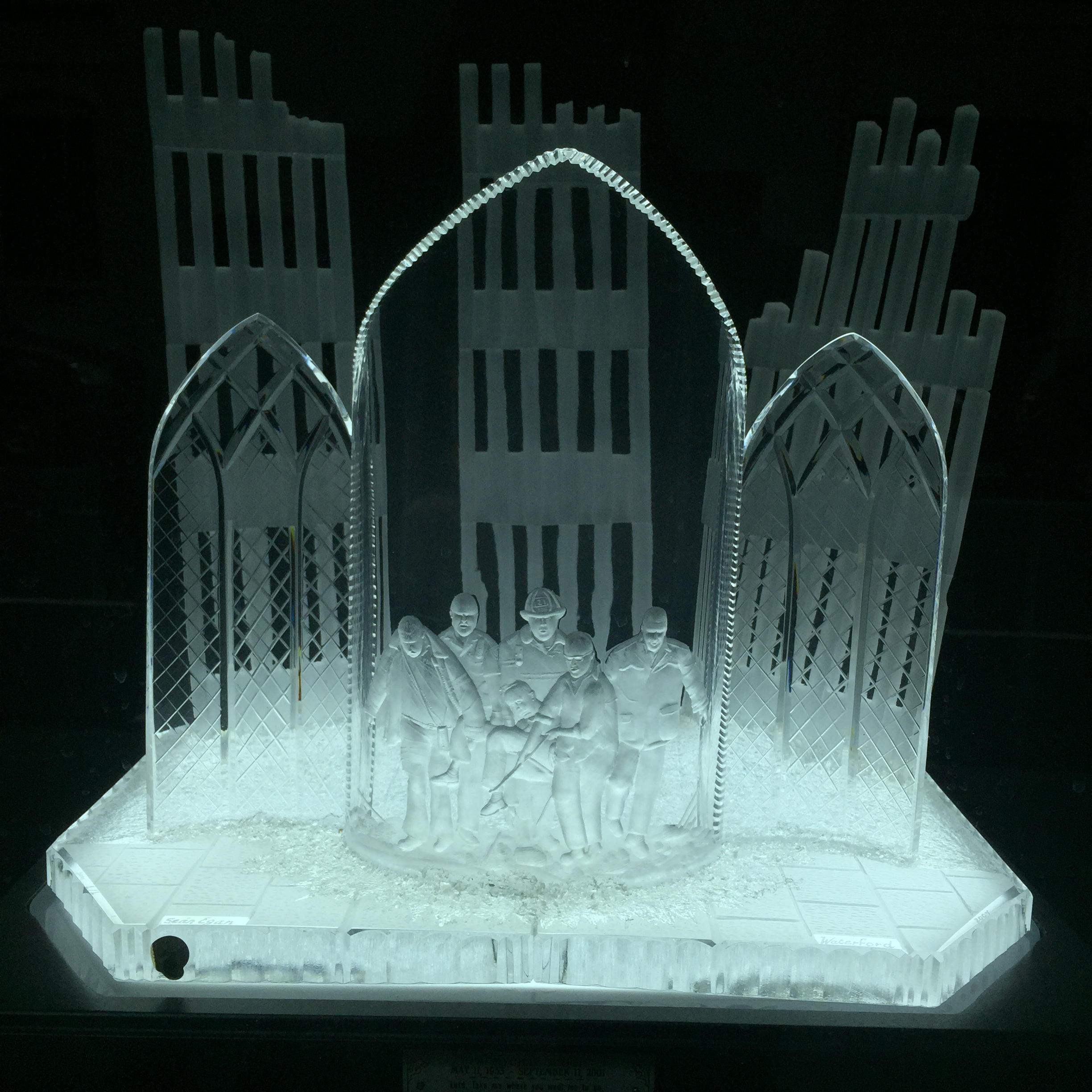 Engine 1 - Ladder 24 (142 W. 31st Street) Battalion 7, Division 1 FR. MYCHAL JUDGE MAY 11, 1933 - SEPTEMBER 11, 2001 Lord, Take me where you want me to go, Let me meet who you want me to meet, Tell me what you want me to say and Keep me out of your way